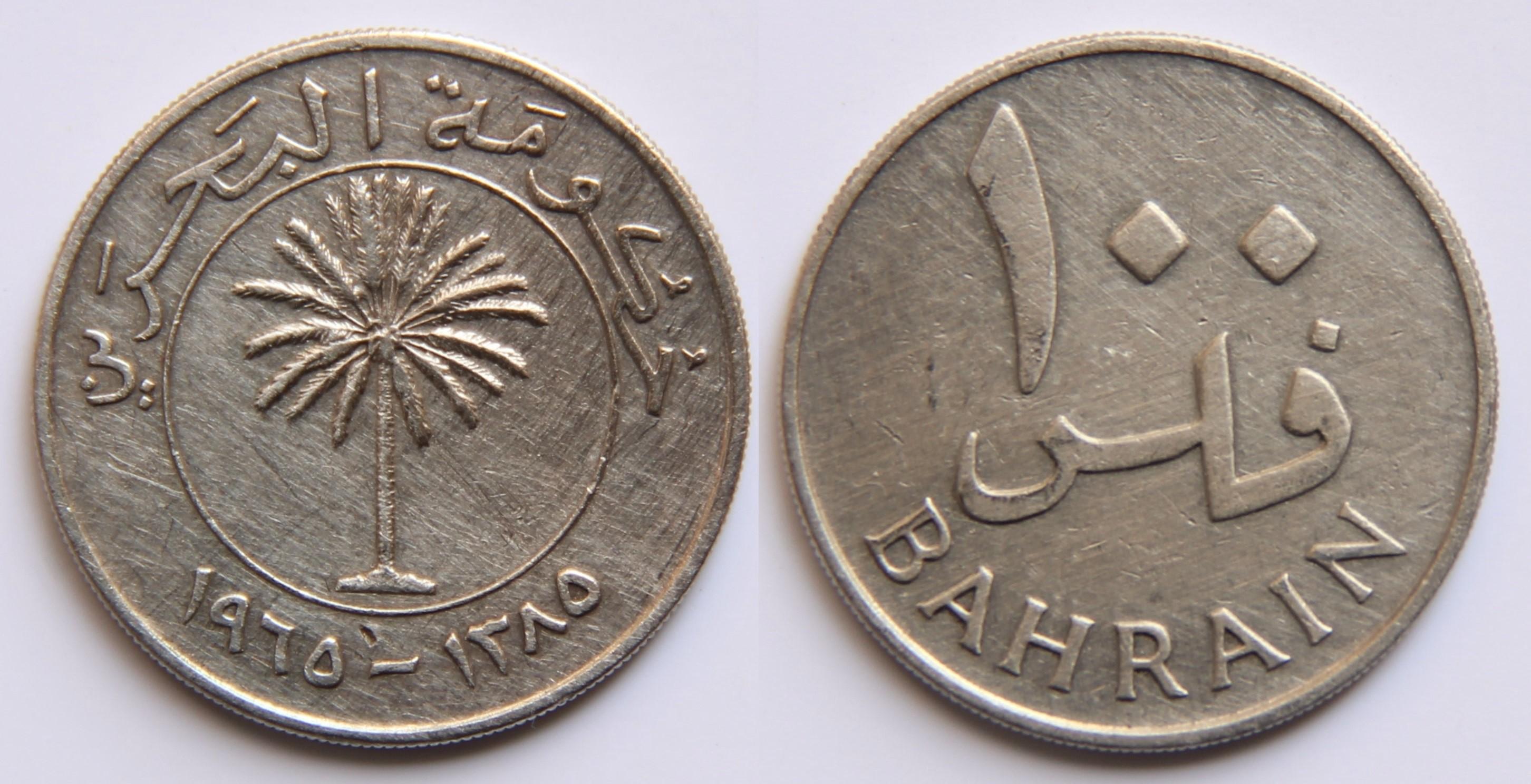 Face value: 100 Fils (currency). Country: Bahrain. Year of minting: 1965. Metal: Copper-nickel. Shape: Round. Obverse: A palm tree with lettering "حكومة البحرين" (Government of Bahrain) and year of minting in Gregorian and Islamic years (1965-1385) inscribed in Arabic.. Reverse: Face-value and country name.. Edge: Smooth. Weight: 6.5 g. Diameter: 25 mm. Thickness: 1.78 mm. Orientation: Medal alignment ↑↑. Total mintage: 8,312,000 coins minted in 1965. Engraver: Not known. Comment: . Monetary status: In use.. Data source: This webpage.